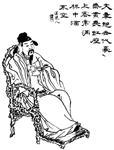 Qing Dynasty Romance of the Three Kingdoms illustration of Kong Rong